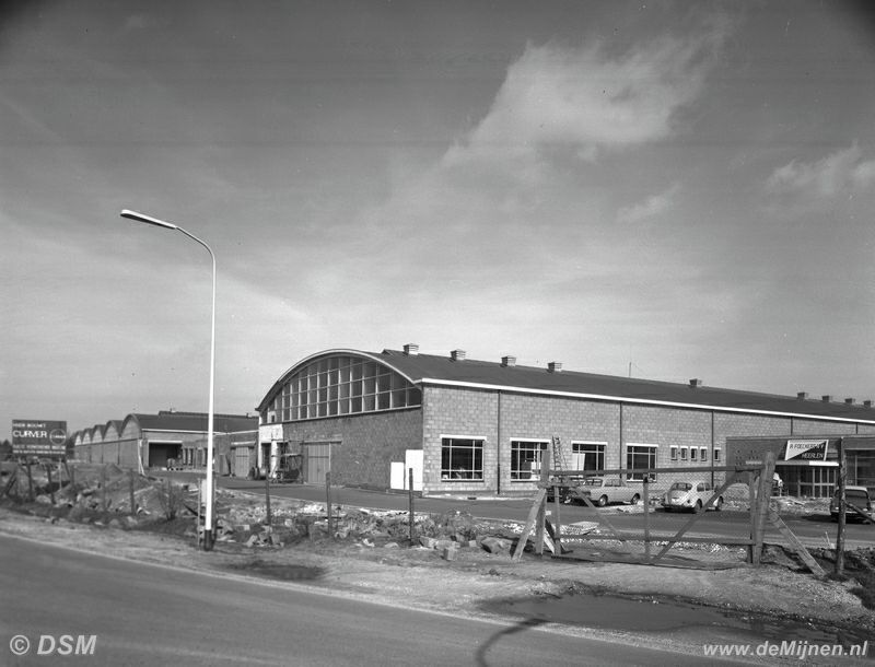 Curver pand te Brunssum